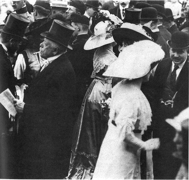 At the horse races in Freudenau, Vienna. Horse racing was very popular amongst the aristocracy and upper class, and played a similar role like Ascot in the United Kingdom.